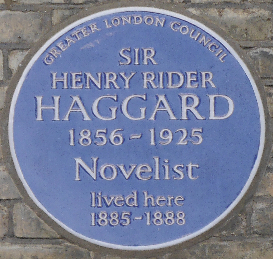 Blue plaque erected in 1977 by Greater London Council at 69 Gunterstone Road, West Kensington, London W14 9BS, London Borough of Hammersmith and Fulham